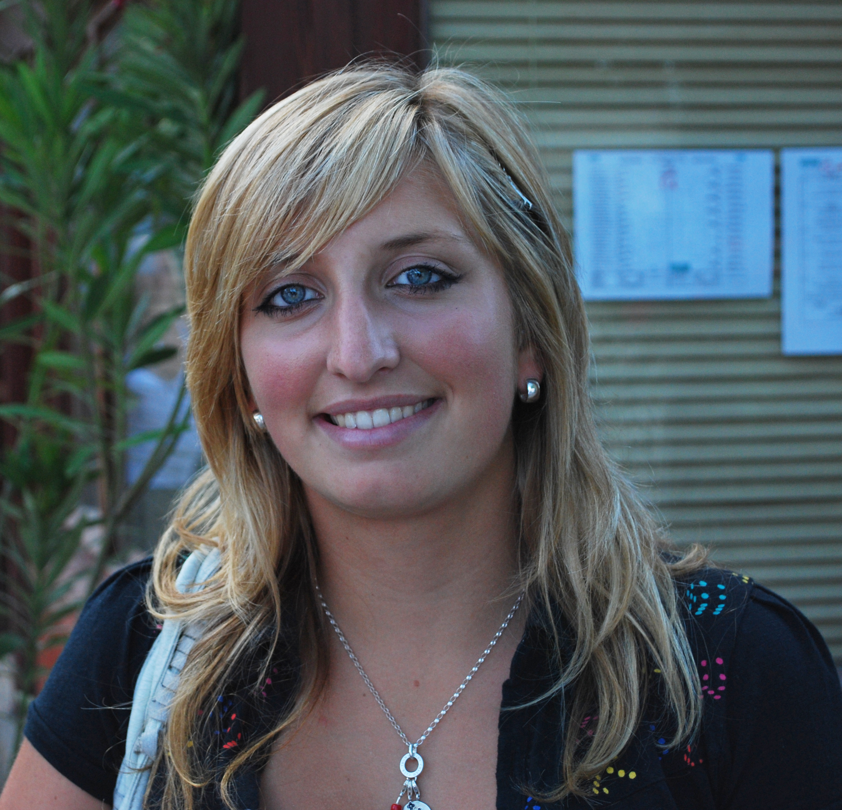 Timea Bacsinszky in Budapest, 2008